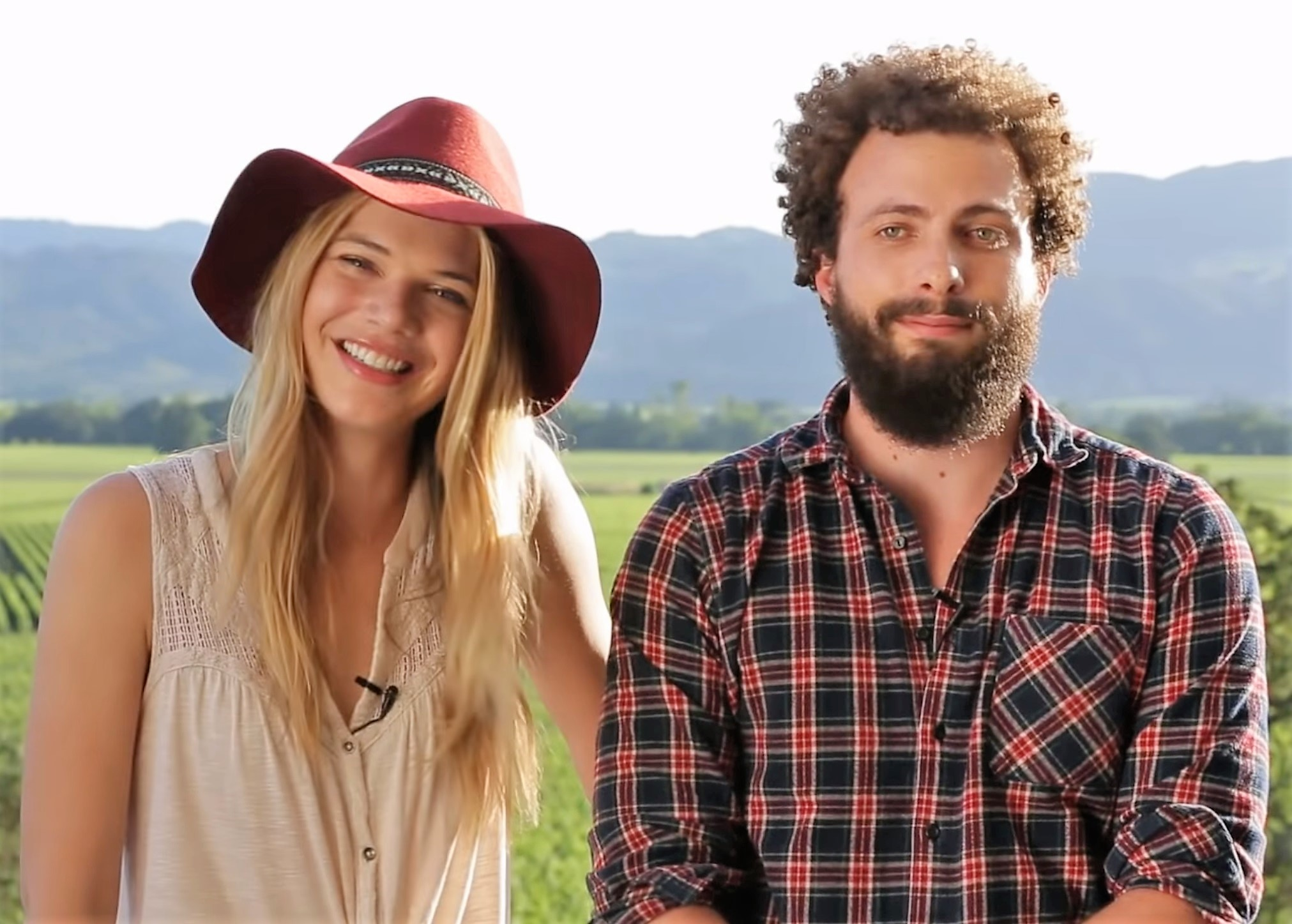 Miner Meets Miner: LA Folk Rockers Visit Napa's Miner Family Winery American folk musicians Kate and Justin Miner of the band Miner. When we discovered LA's up-and-coming folk rockers Miner were playing the Miner Family Winery stage at Napa Valley's BottleRock festival, we couldn't resist the opportunity to document a meeting of the Miners, as Justin and and Kate Miner (of the band Miner) take a tour of the Miner Family Winery with the vineyard's owner, Dave Miner.